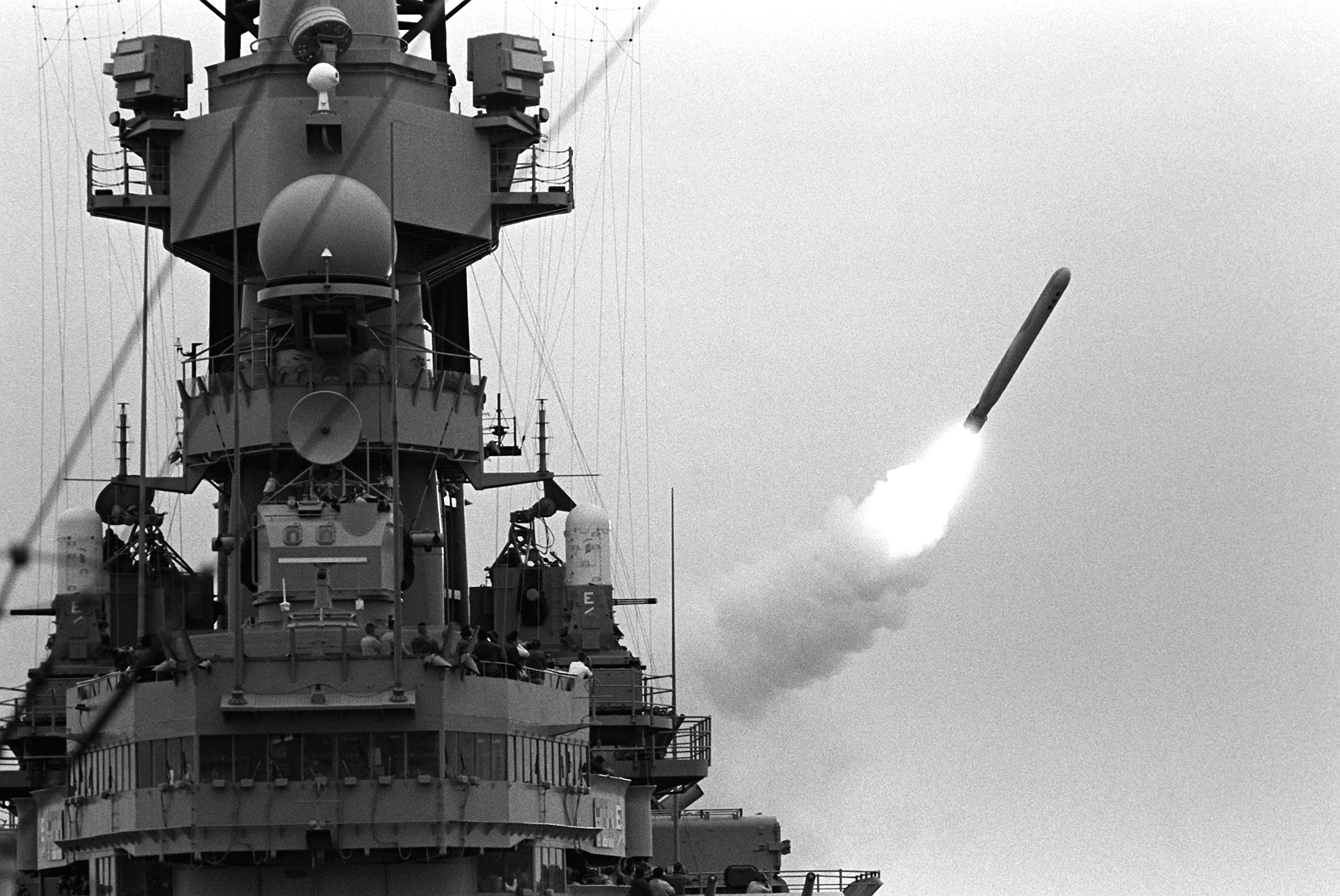 A BGM-109 Tomahawk land-attack missile (TLAM) is fired toward an Iraqi target from the battleship USS MISSOURI (BB-63) at the start of Operation Desert Storm.